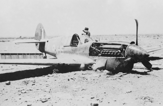 A German soldier near a crashed Curtiss Kittyhawk I fighter from No. 260 Squadron, Royal Air Force (squadron code A-HS), in North Africa.